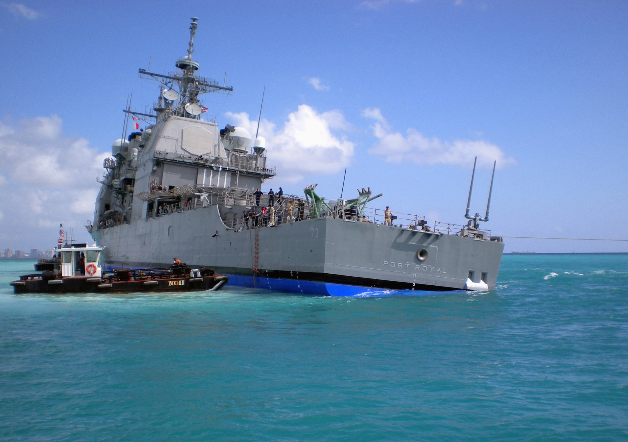 090207-N-0000X-007 PEARL HARBOR The Pearl Harbor-based guided-missile cruiser USS Port Royal (CG 73) takes a starboard list as the USNS Salvor (T-ARS 52) tries to free the ship after it ran aground Feb. 5 about a half-mile south of the Honolulu airport while off-loading personnel into a small boat. The salvage ship USNS Salvor (T-ARS 52), which included an embarked detachment of Mobile Diving Salvage Unit (MDSU) 1 personnel, the Motor Vessel Dove, and seven Navy and commercial tugboats freed Port Royal off a shoal on Feb. 9.